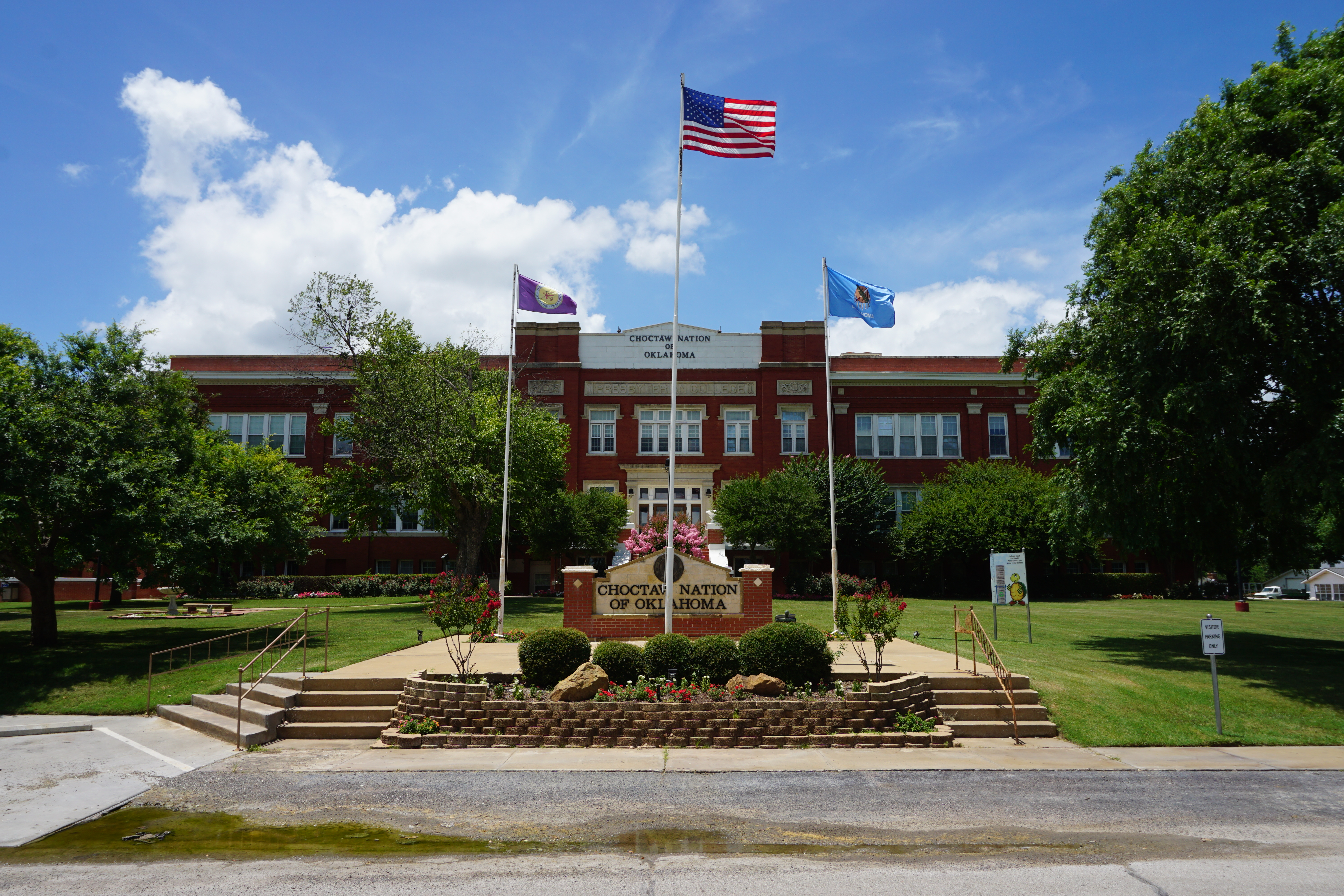 The Choctaw Nation Tribal Complex (the former Oklahoma Presbyterian College) in Durant, Oklahoma (United States).